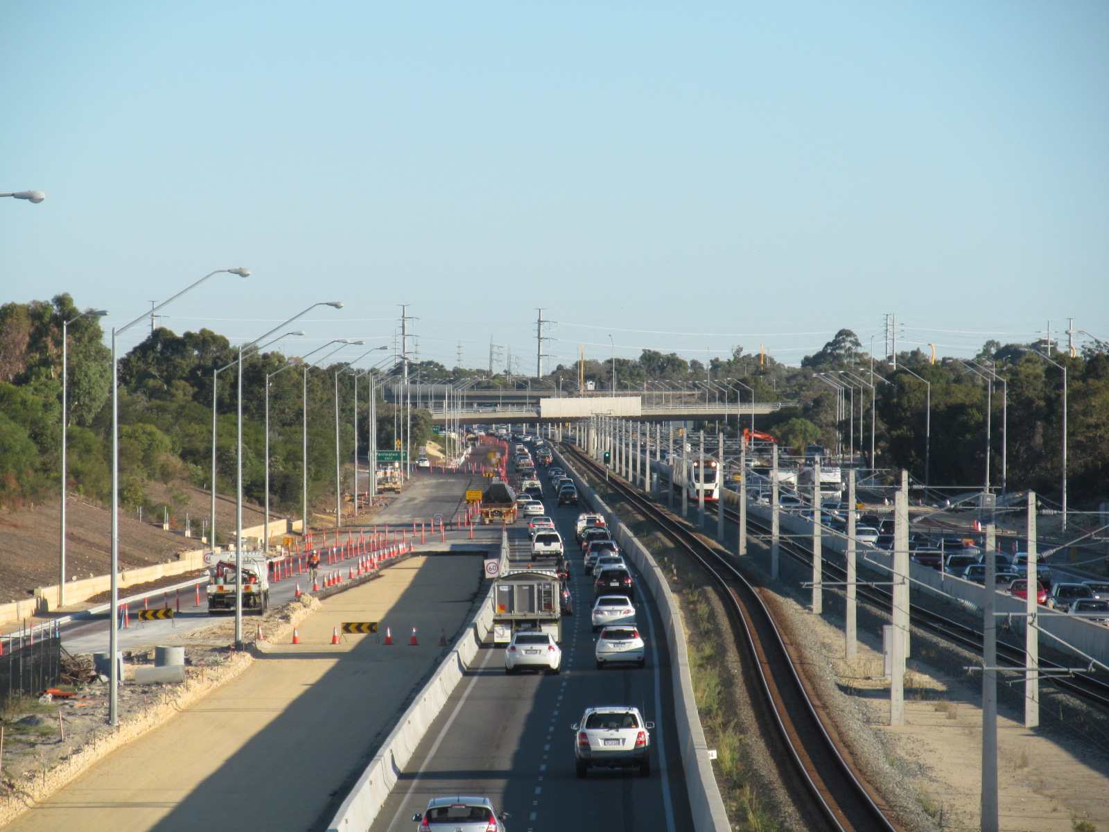 Kwinana freeway looking south from Murdoch railway station, showing works being undertaken in early 2012 to widen the freeway.